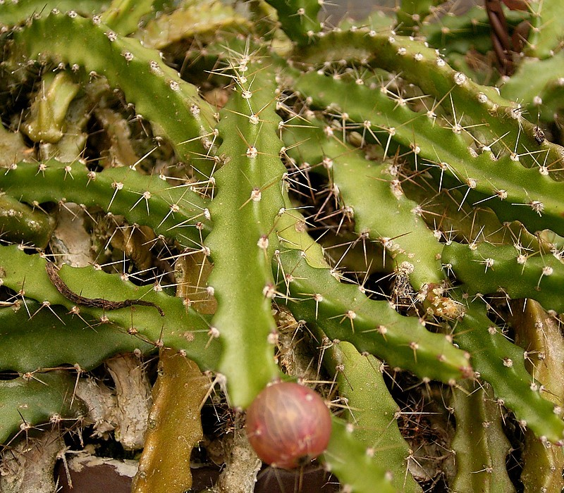 Lepismium ianthothele